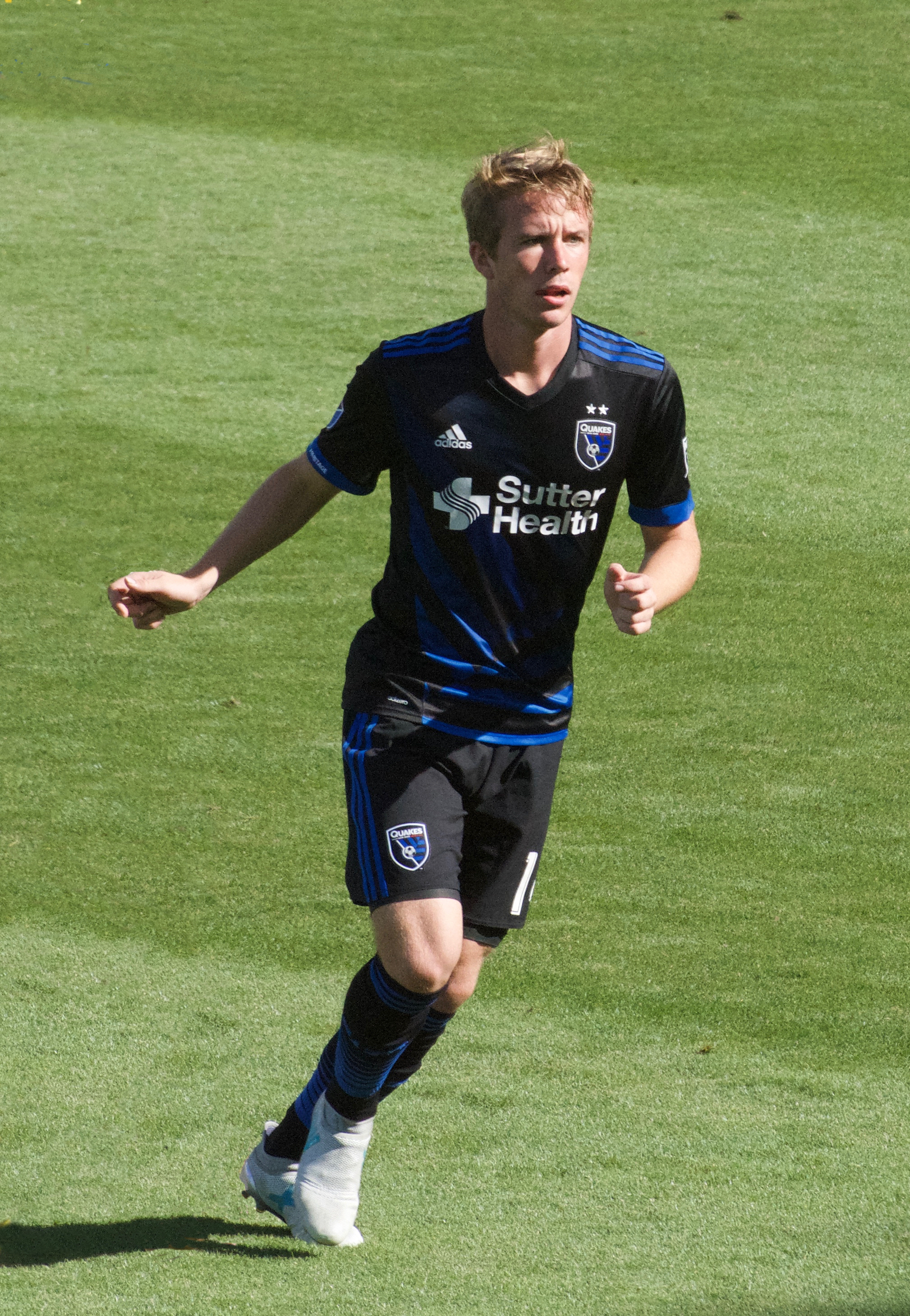 Jackson Yueill playing for San Jose Earthquakes at Avaya Stadium, 29 July 2017.